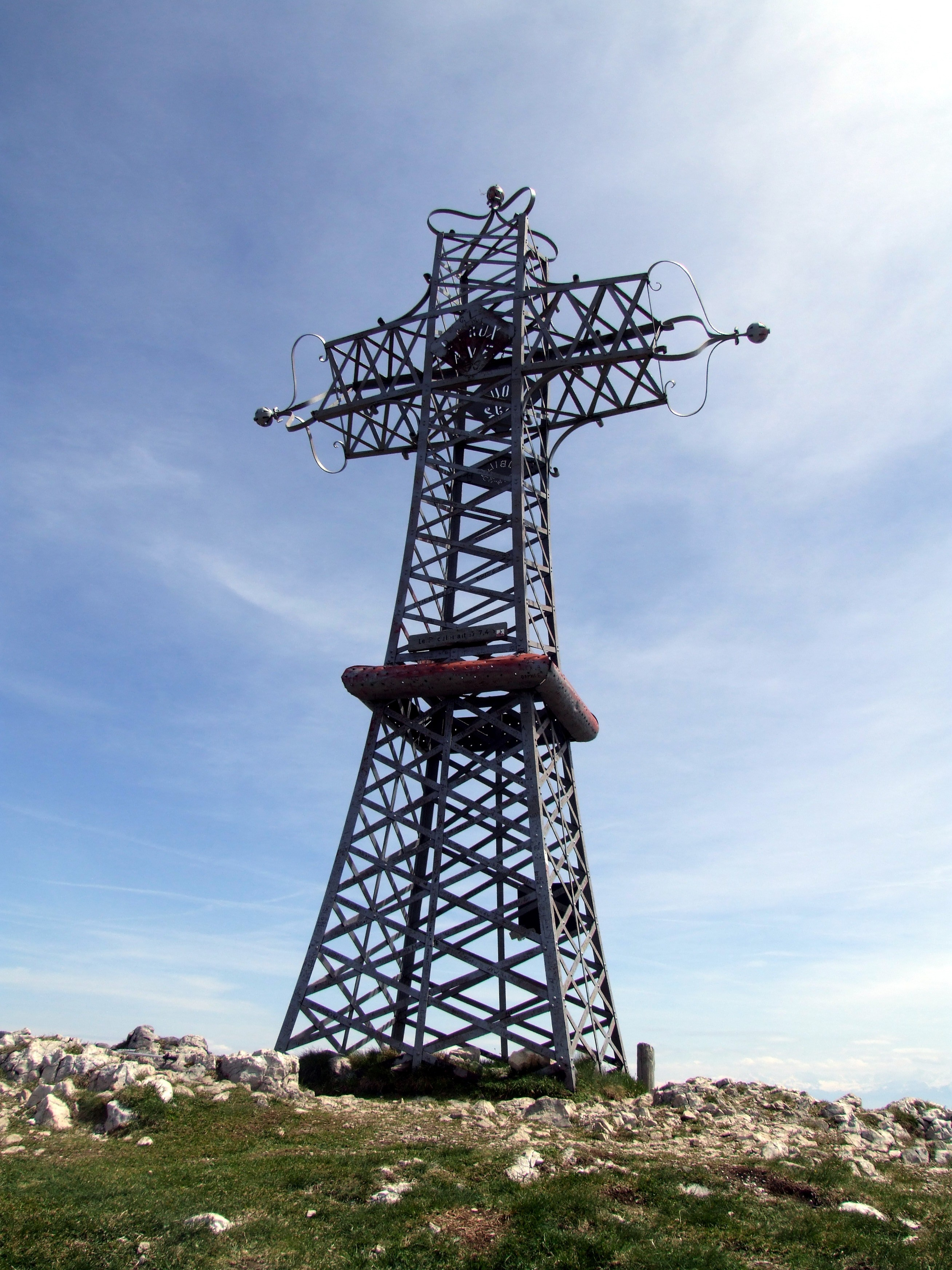 The cross on the top of Reculet, in the French Jura near Thoiry.